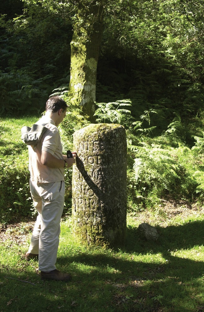 Marco Miliário